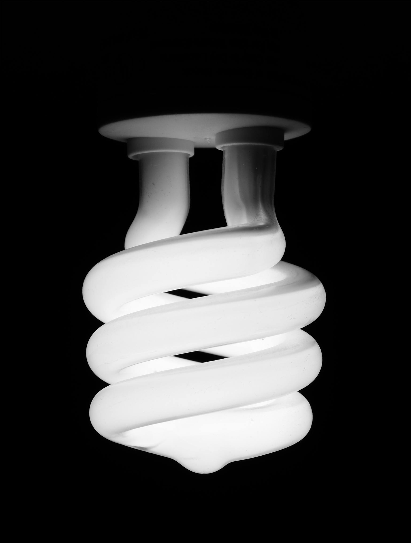 High Resolution black and white photo of a compact fluorescent light bulb.